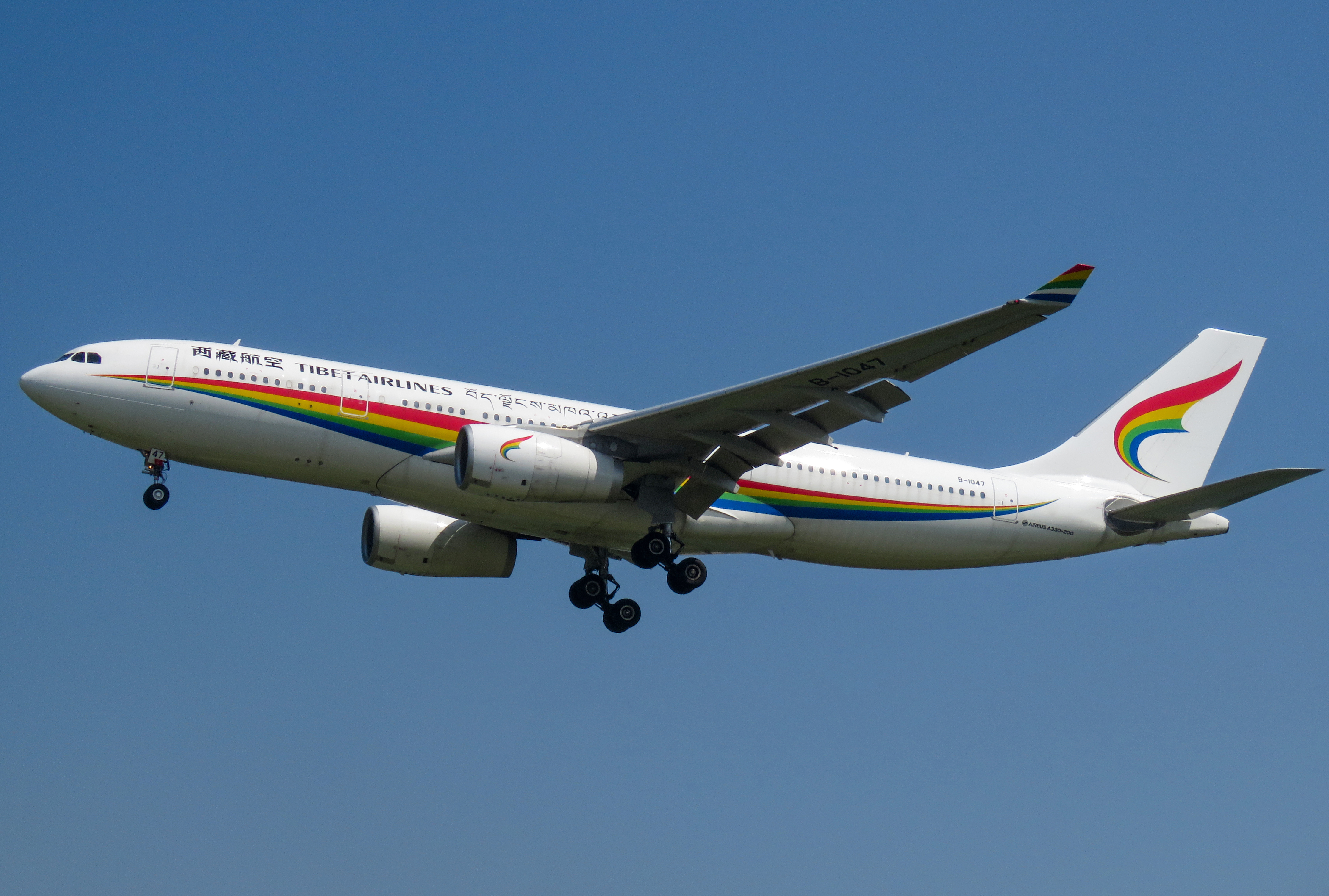 Tibet 9815 from Lhasa, landing 36R.